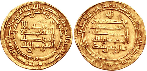 ISLAMIC, Egypt & Syria (Pre-Fatimid). Tulunids.w: Khumarawaih bin Ahmad. AH 270-282 / AD 884-896. AV Dinar (23mm, 3.87 g, 12h). Struck in the name of the Caliph al-Mu‘tamid and citing his heir al-Mufawwidh. Misr (Cairo) mint. Dated AH 276 (AD 889/90). Grabar 32; AGC I 193De; Album 664.1. Good VF.